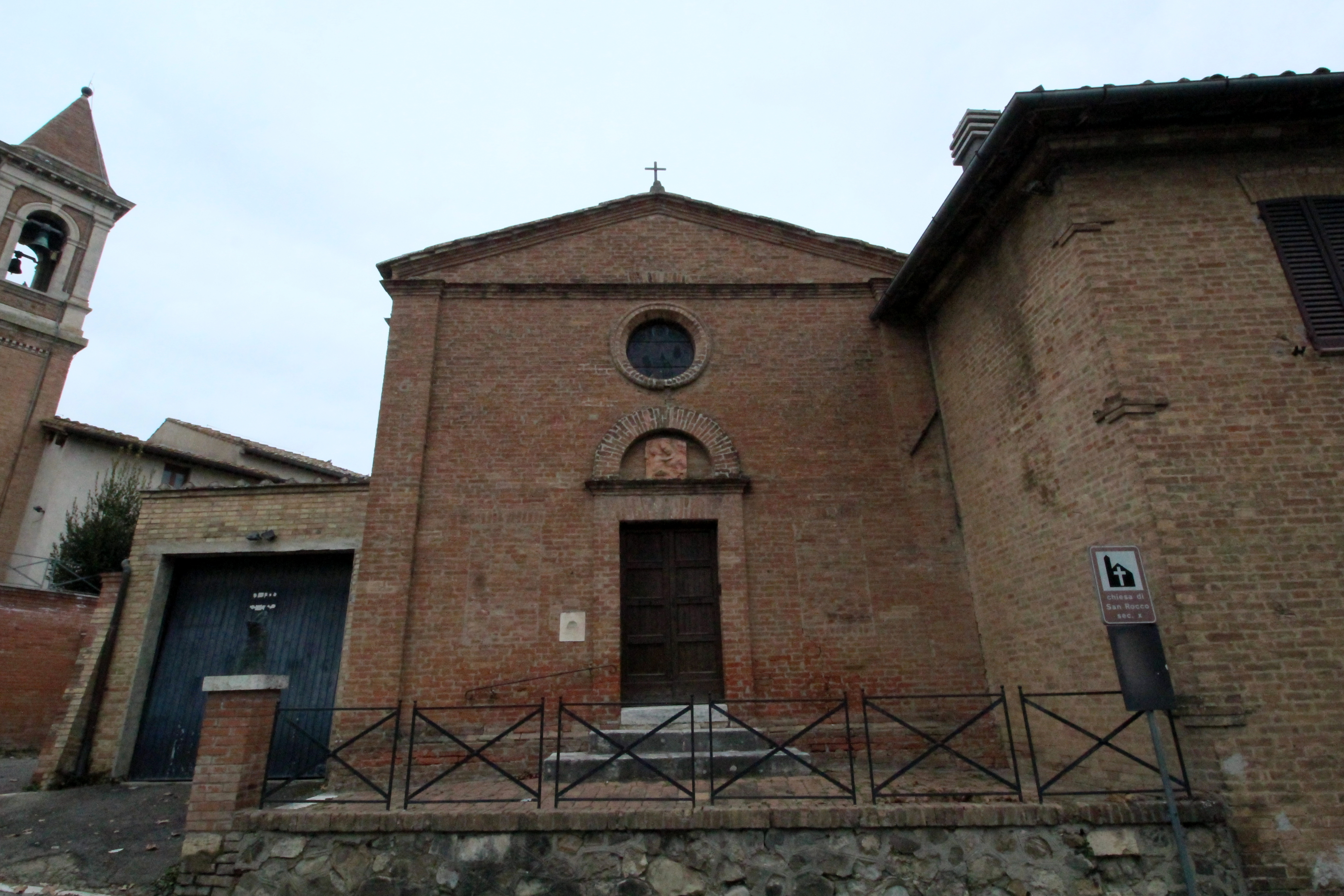 Church San Rocco (Oratorio della Compagnia di San Rocco), Torrenieri, hamlet of Montalcino, Province of Siena, Tuscany, Italy